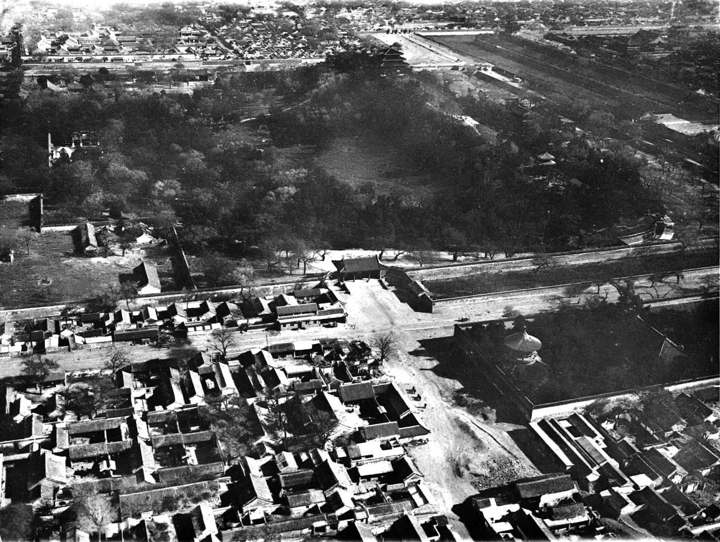 Image from La Chine à terre et en ballon.